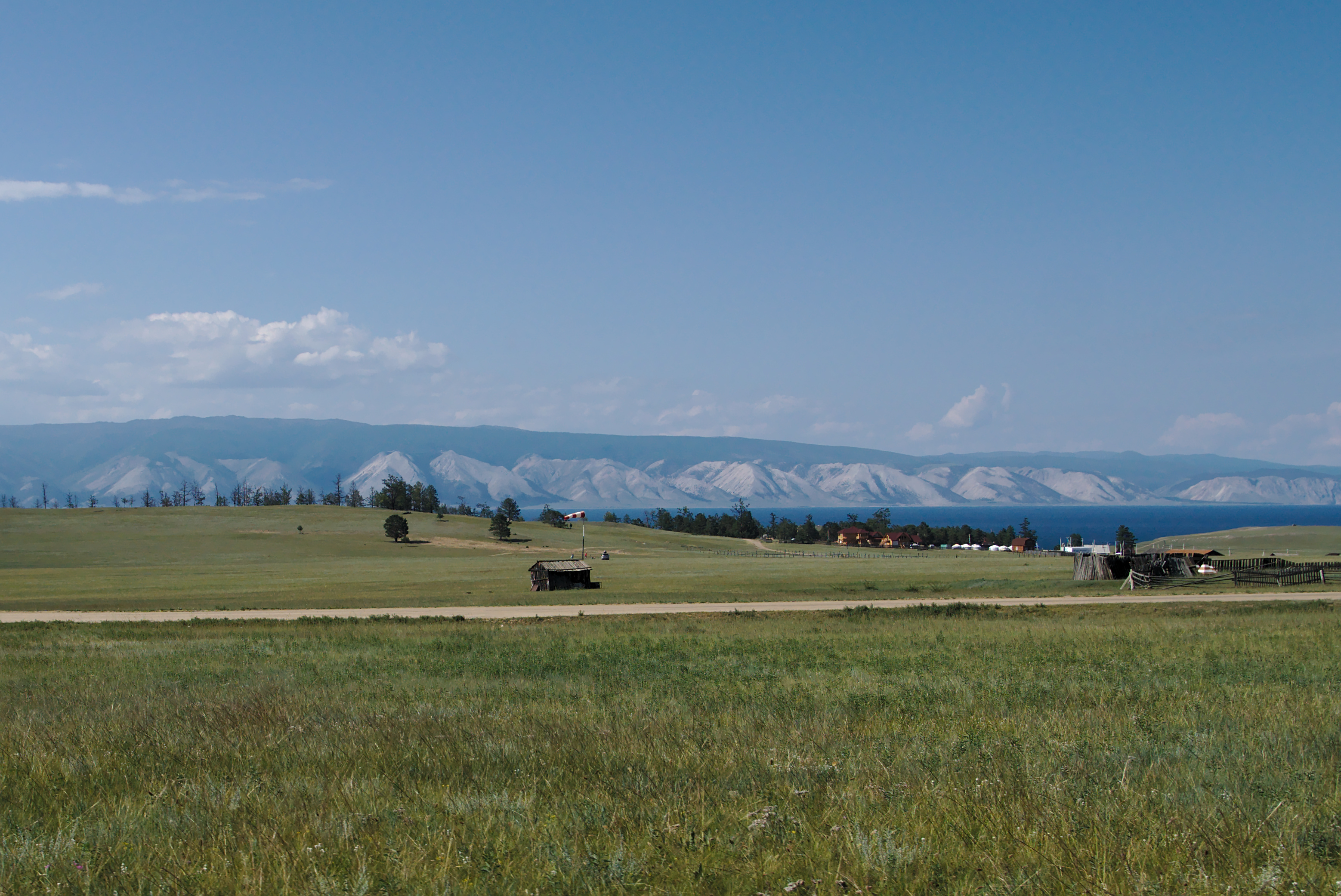 Kharantsy and former airfield, Olkhon Island, Lake Baikal, Russia